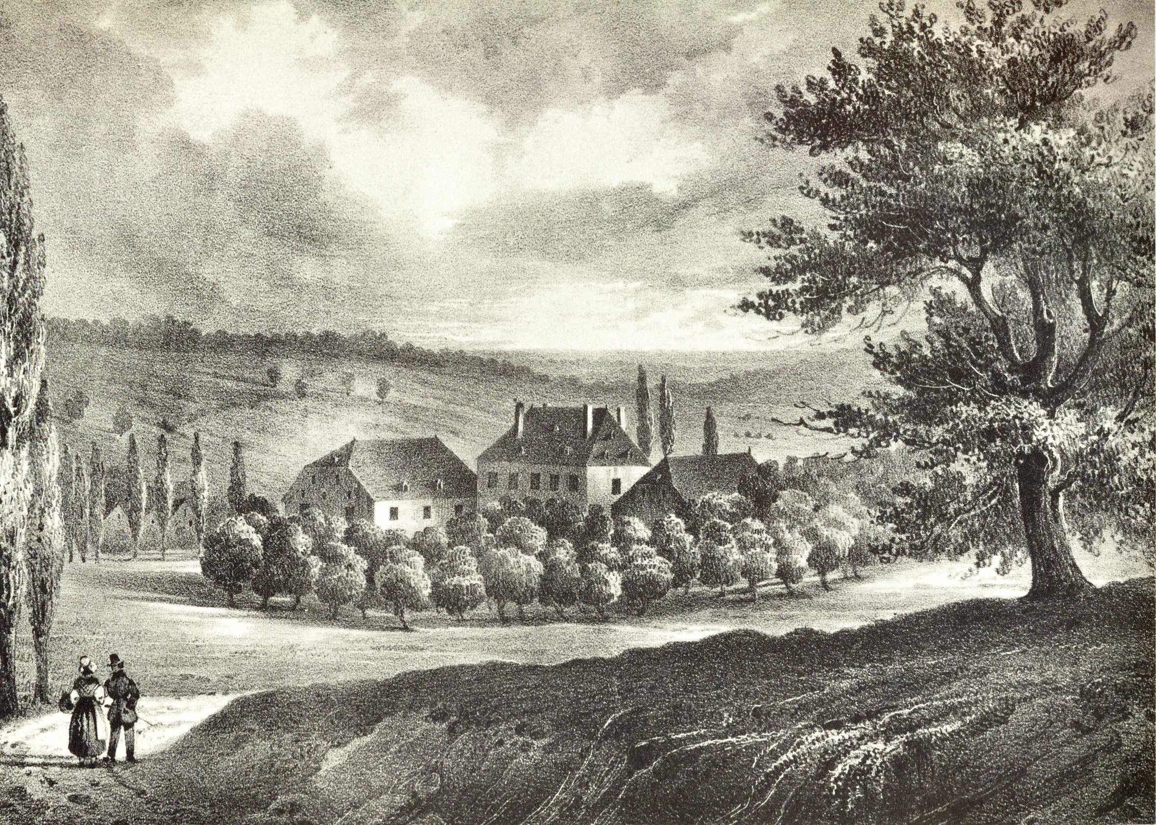 View on the village of Munsbach with castle, Luxembourg.